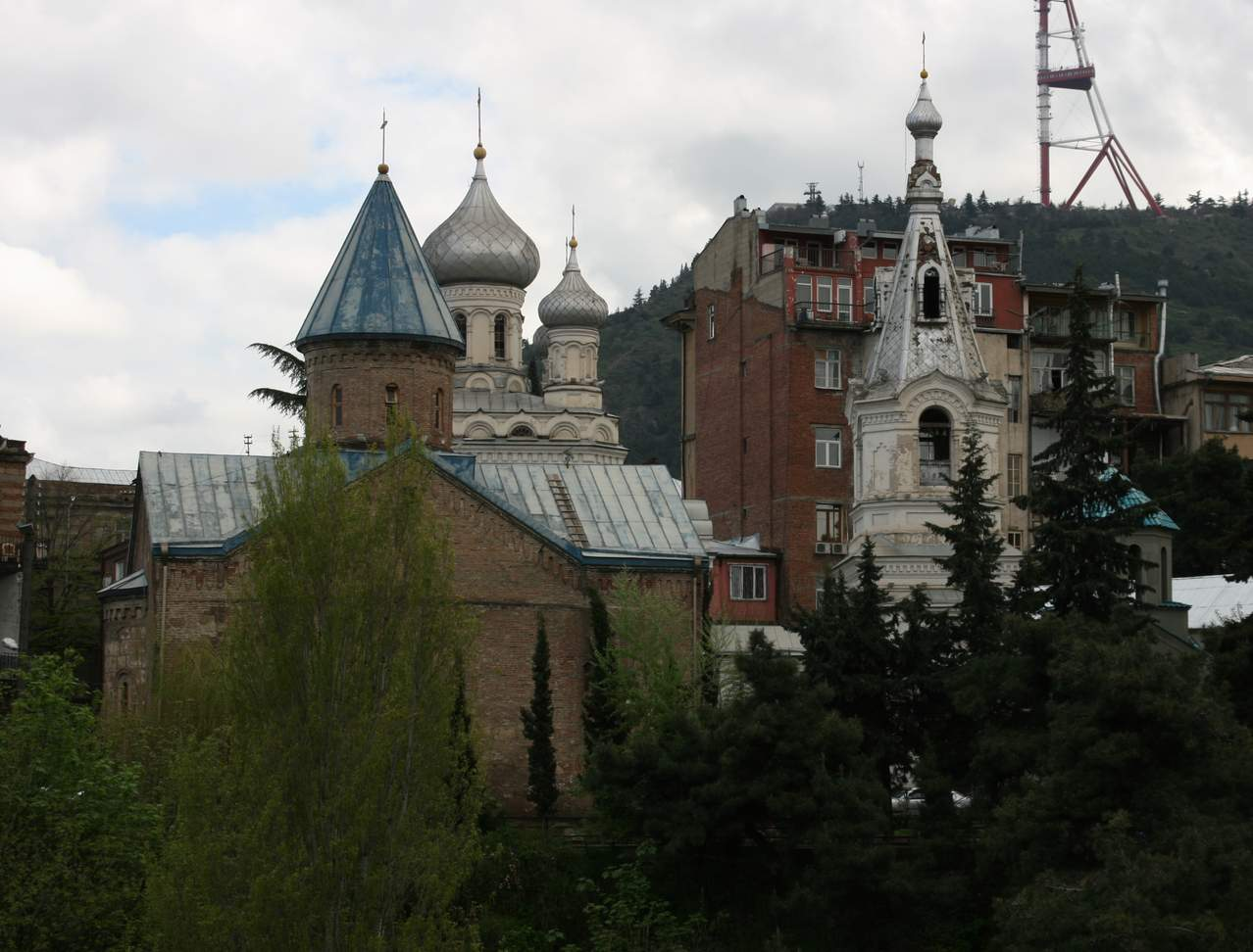 The church of St. Andrew, the so-called Blue Monastery, and the church of St. John the Apostle at the Vere Park, Tbilisi.